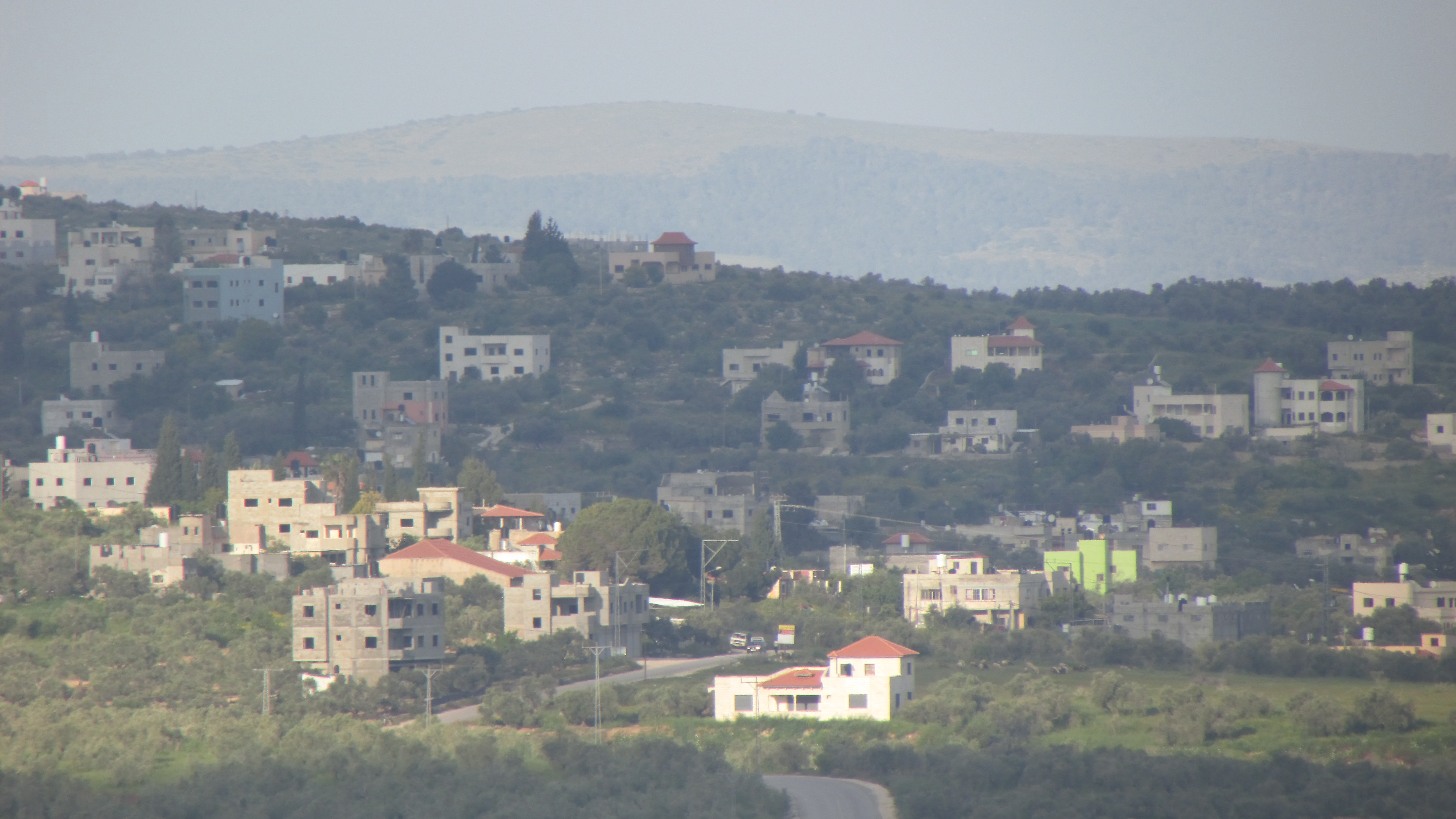 Southern parts of Kufeirit from Meoz Zvi in the west.